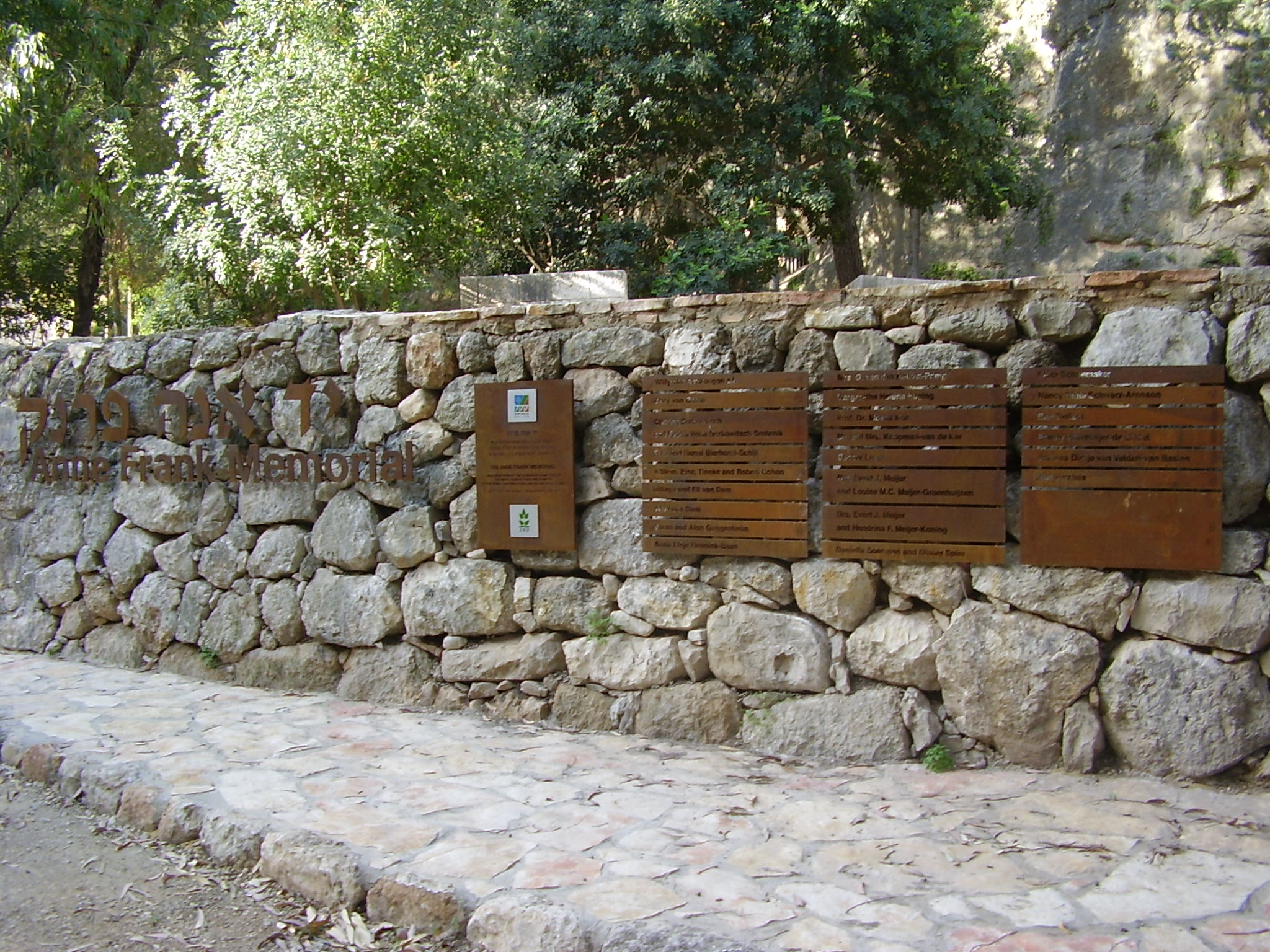 Anne Frank Memorials in Martyrs Forest